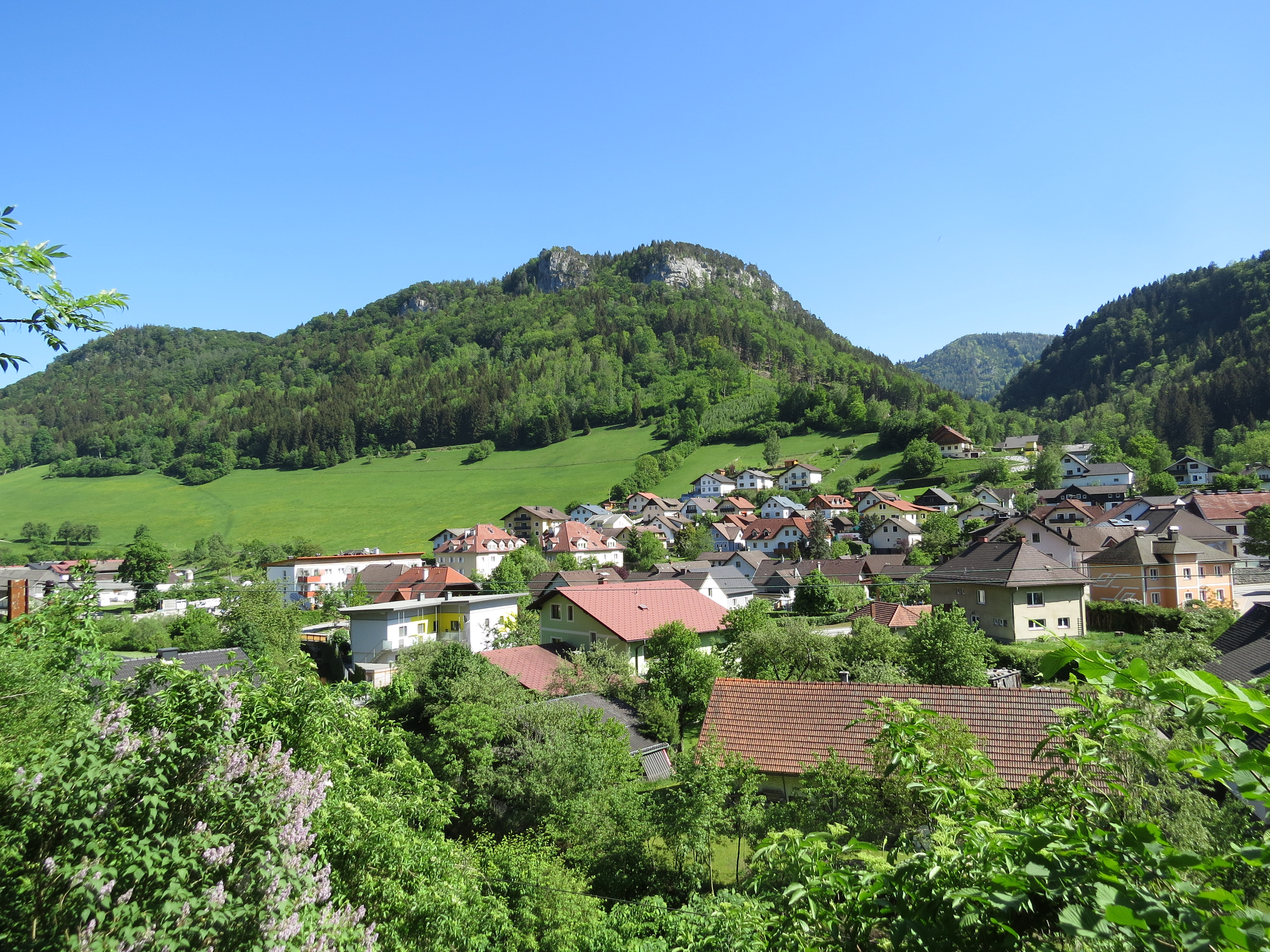 Frankenfels